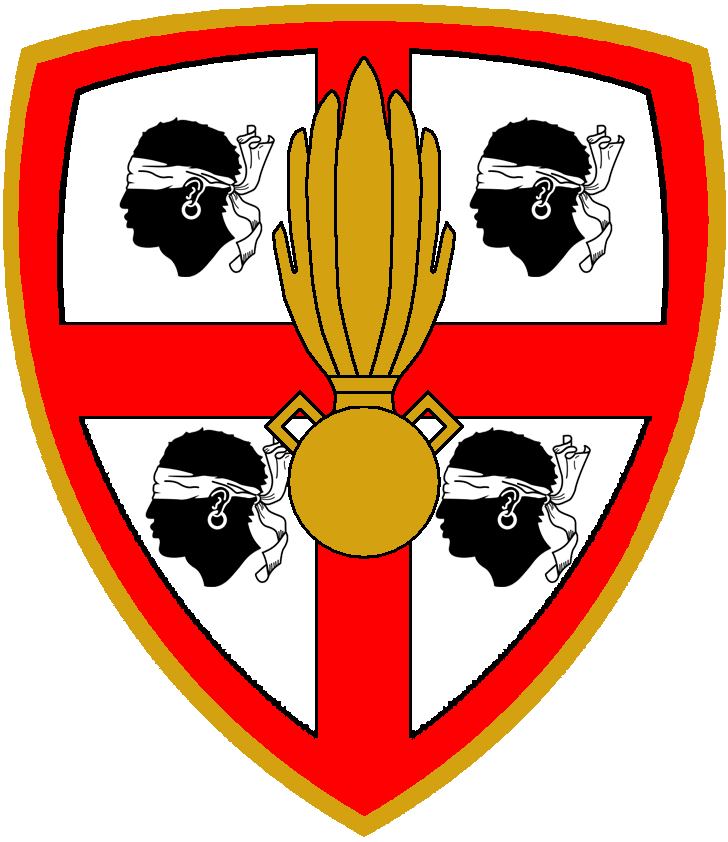 Coat of Arms of the Italian Army Mechanized Brigade Granatieri di Sardegna after 1975